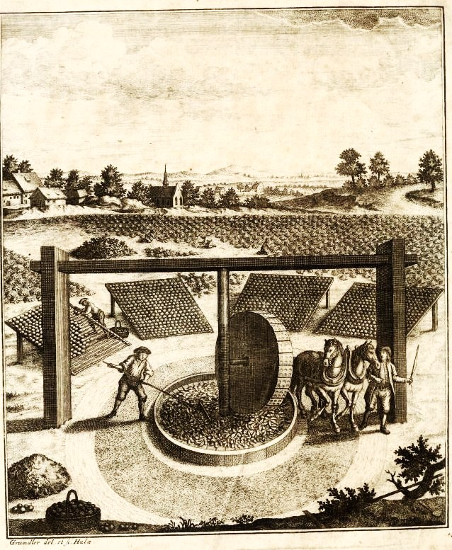 Illustration of German woad mill in Thuringia from Daniel Gottfried Schreber's book on woad. from